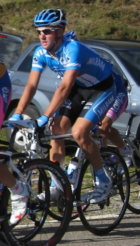 Fabio Sabatini, 2008 Vuelta a España, 8th stage, Port de la Bonaigua, Spain.